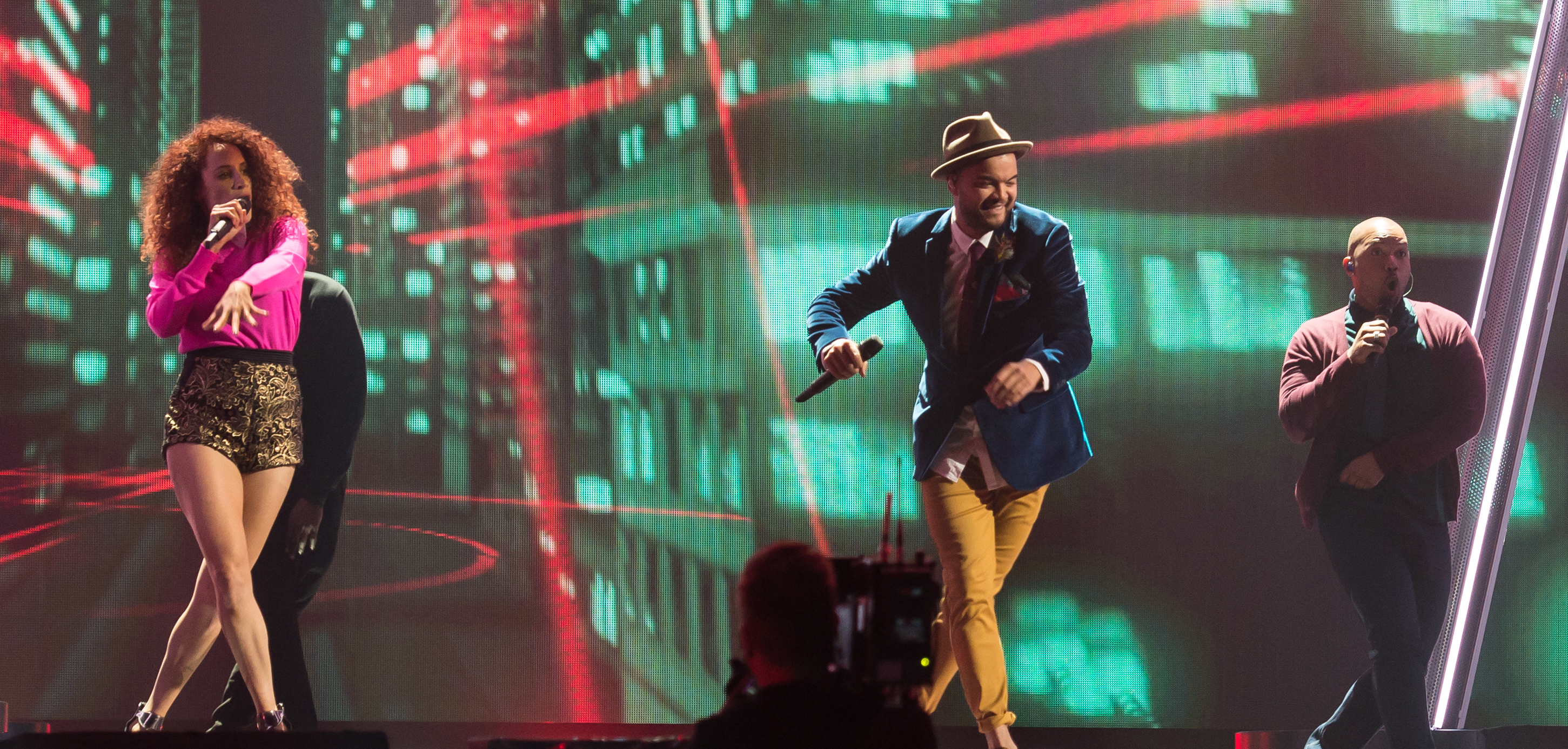 Eurovision Song Contest Vienna 2015: Guy Sebastian